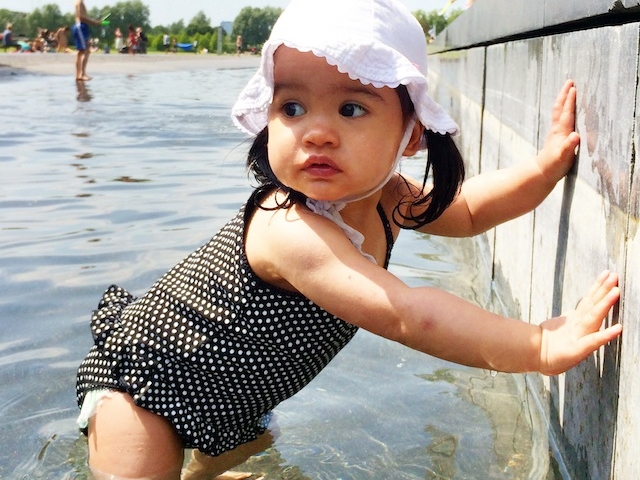 Cute toddler girl in swimsuit and white hat